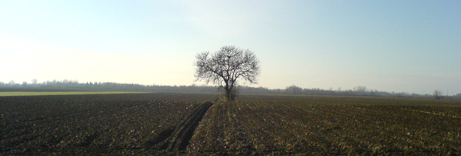 Tree in the sun, Slavonia